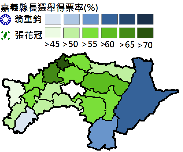 Chiayi magistrate election 2009